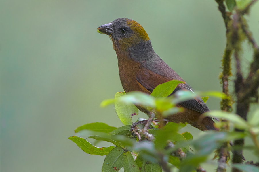 The species Golden-naped Finch had been photographed during the birding tour of GoingWild in Pangolakha Wildlife Sanctuary in East Sikkim, India on 15.05.2016.